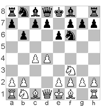 chess diagram New Indian defence Source: CBlight + my processing